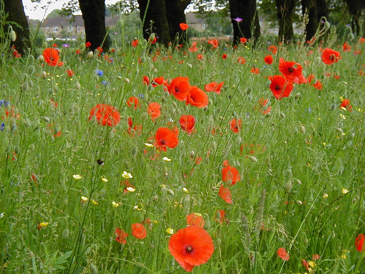 Corn poppies (Papaver rhoeas) growing in long grass.